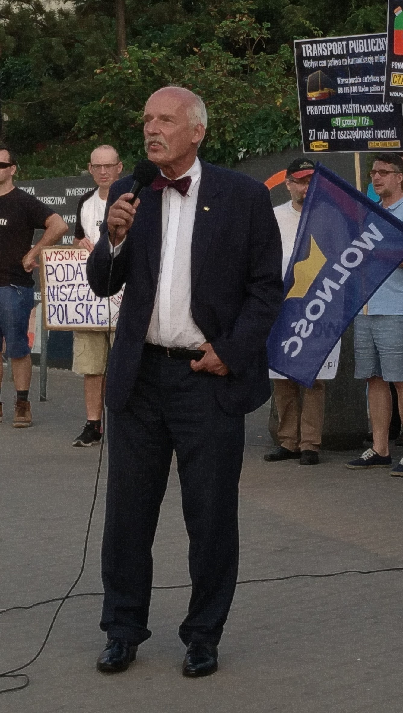 Janusz Korwin - Mikke, Warsaw, Poland, August 2018